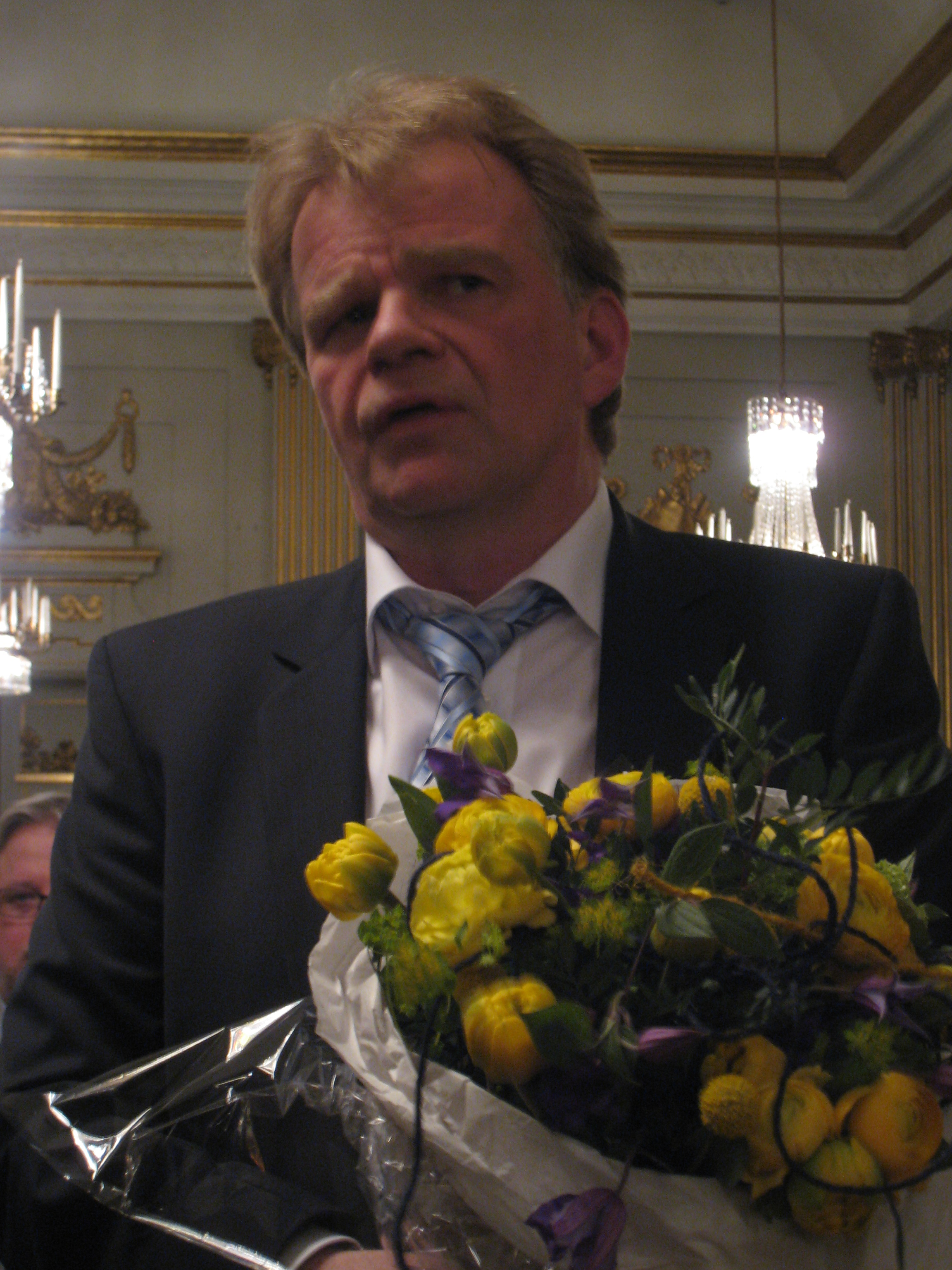 Icelandic author Einar Már Guðmundsson at the reception of the Swedish Academy Nordic Prize, April 11th, 2012